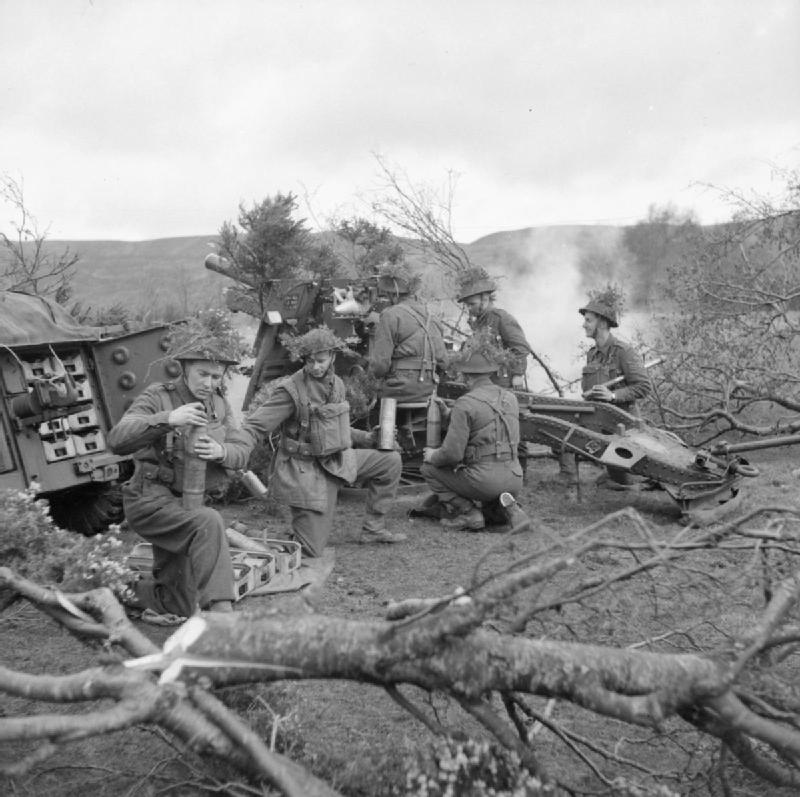 The British Army in the United Kingdom 1939-45 A 25-pdr field gun of 150th Field Regiment, Royal Artillery, 148th Independent Infantry Brigade Group, firing during Exercise 'Dragoon' in the Sperrin Mountains near Draperstown in Northern Ireland, 1 April 1942.